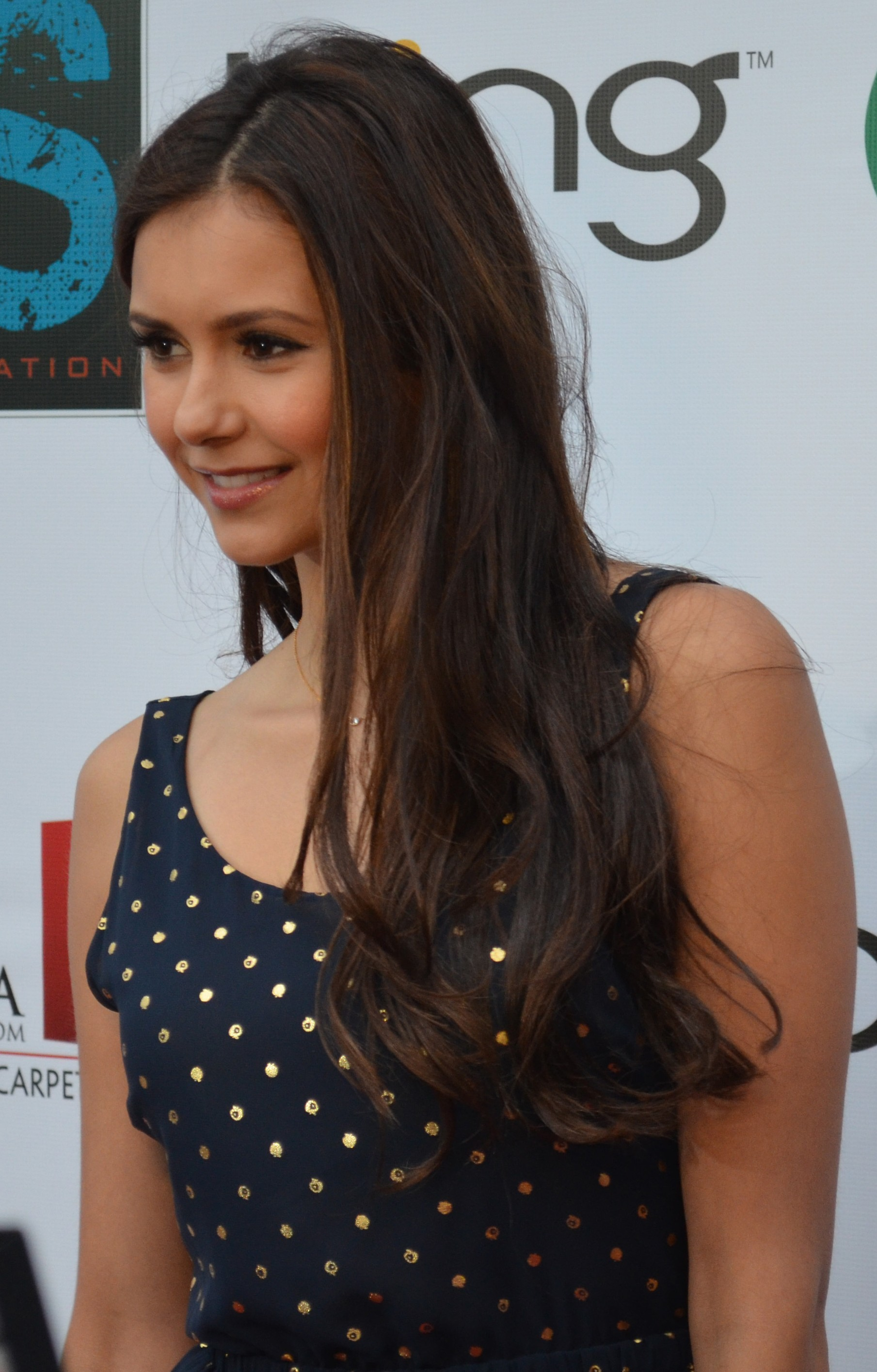 Actress Nina Dobrev at the Ian Somerhalder Foundation's Influence Affair Red Carpet in April 2012.